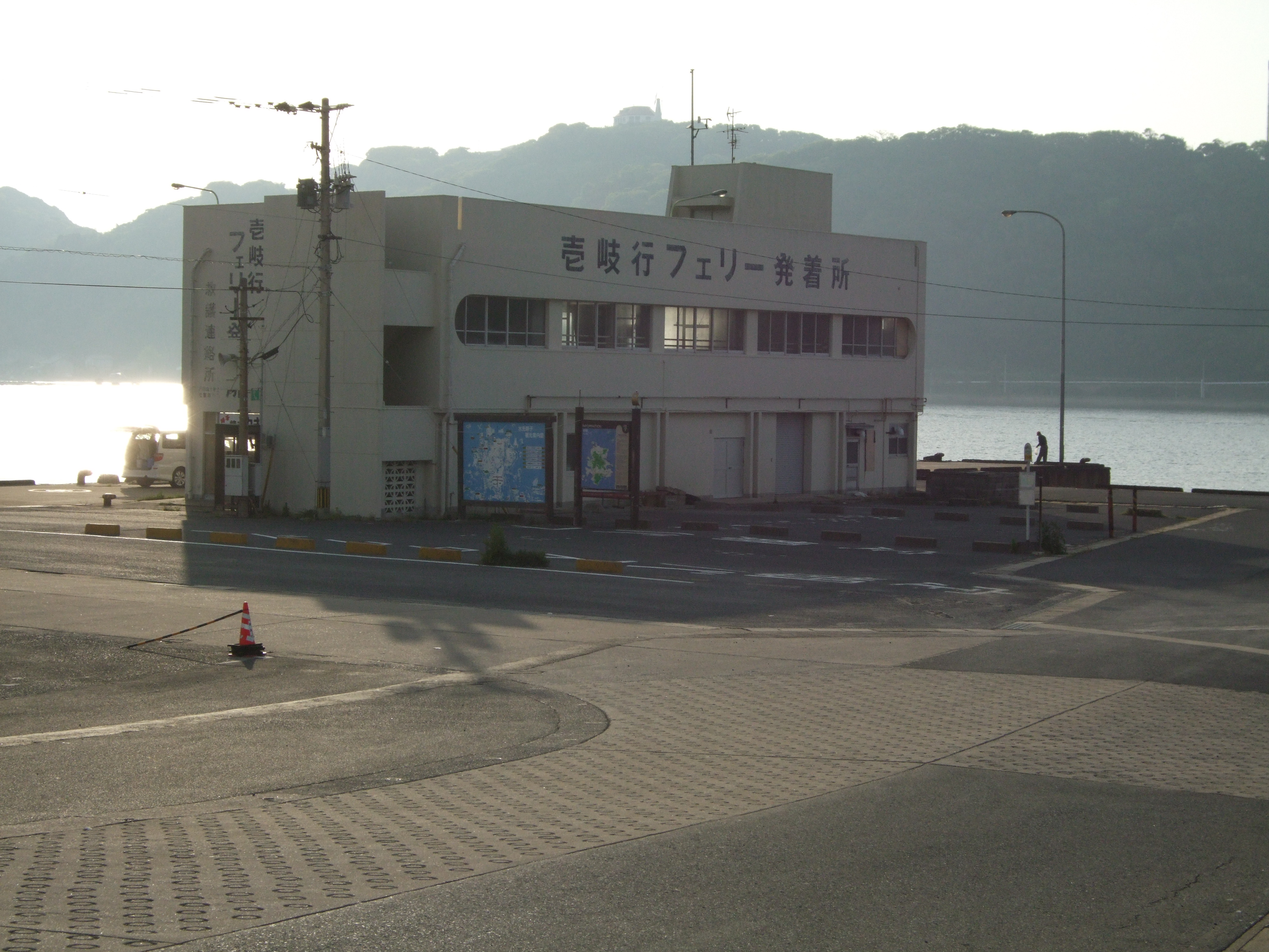 R382-Yobuko ferry port in Saga, Japan